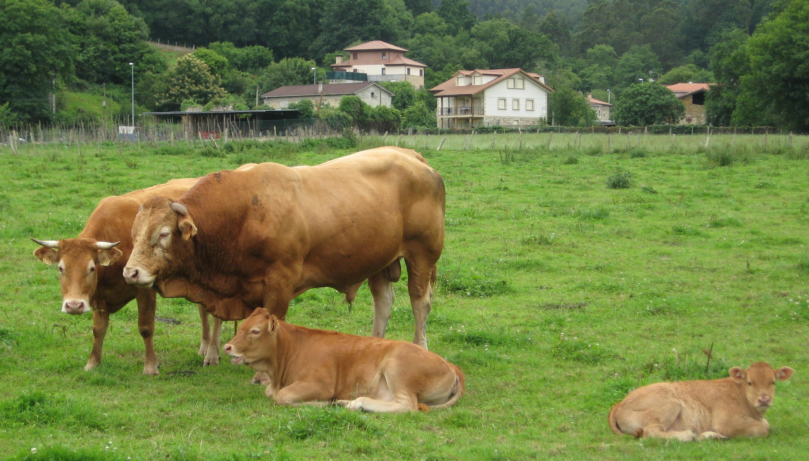 Cattle near the village of Adino, in Guriezo, Cantabria, Spain.